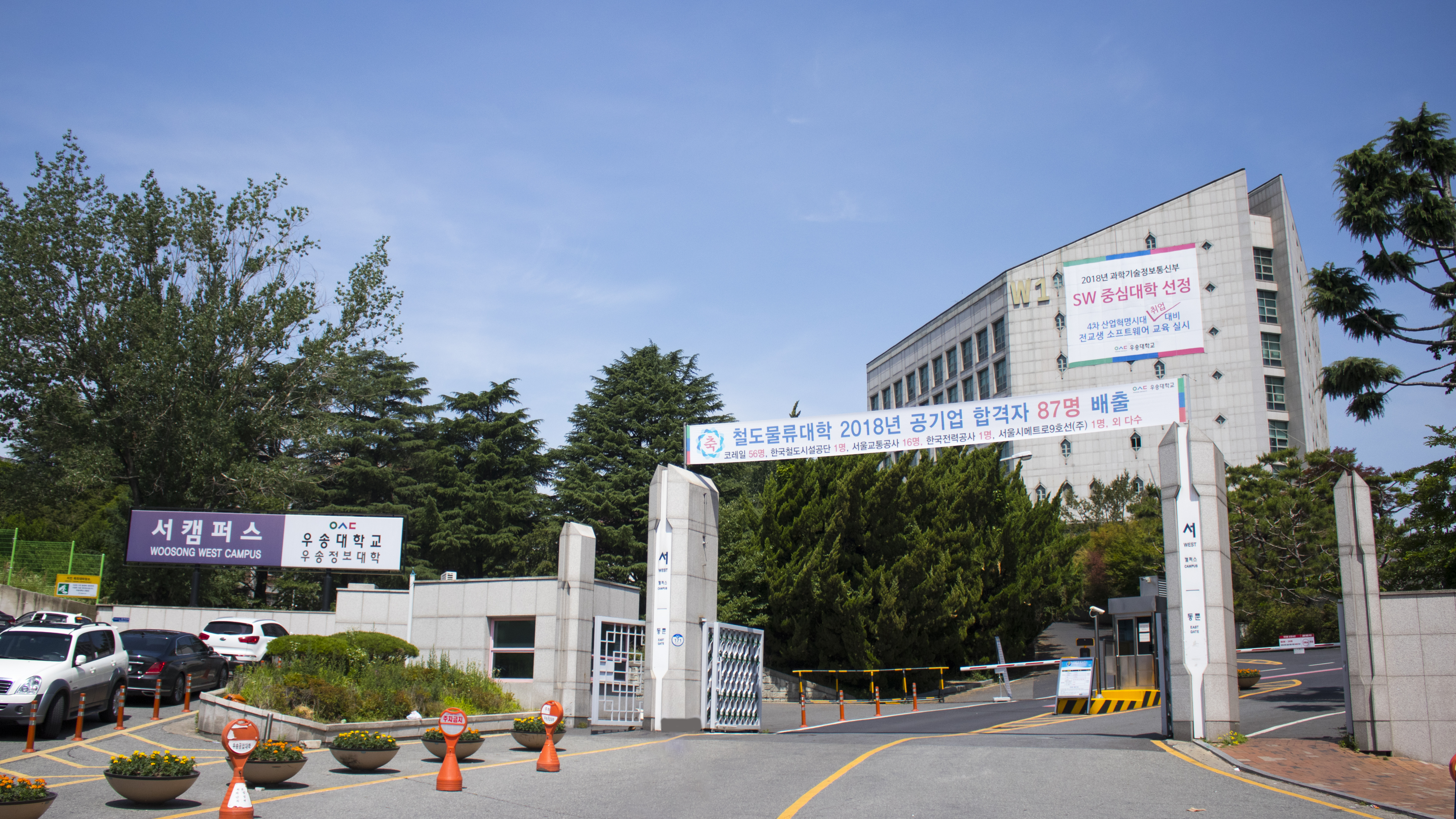 Main Entrance of Woosong University West Campus